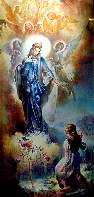 Aldo Locatelli: Our Lady of Caravaggio and the seer Joaneta. Church of St. Pelegrino, Caxias do Sul, Brazil